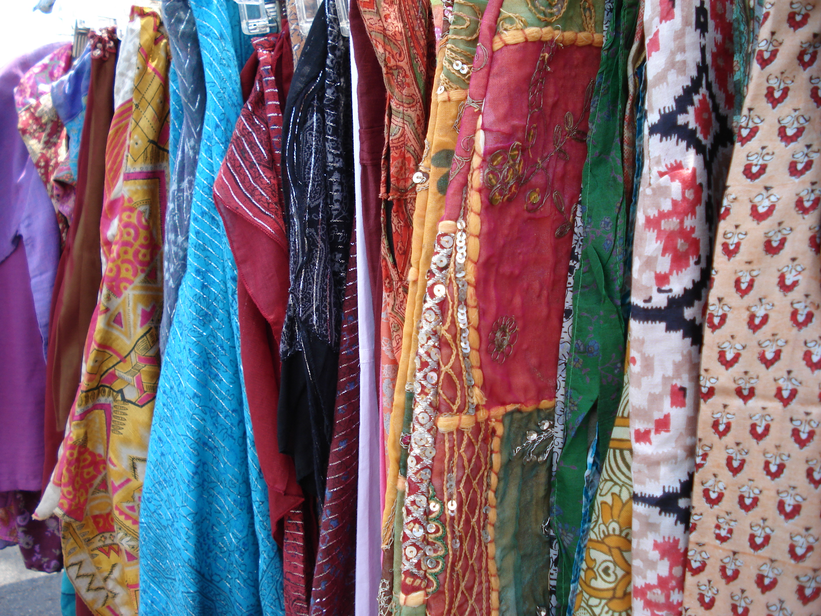 Hippie clothing